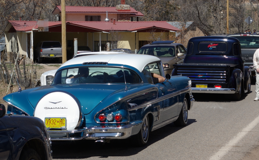 The Good Friday pilgrimage to the Santuario de Chimayó is traditionally a walk, but some people drive to pick up walkers, as a way of participating, or just to show off their vehicles.